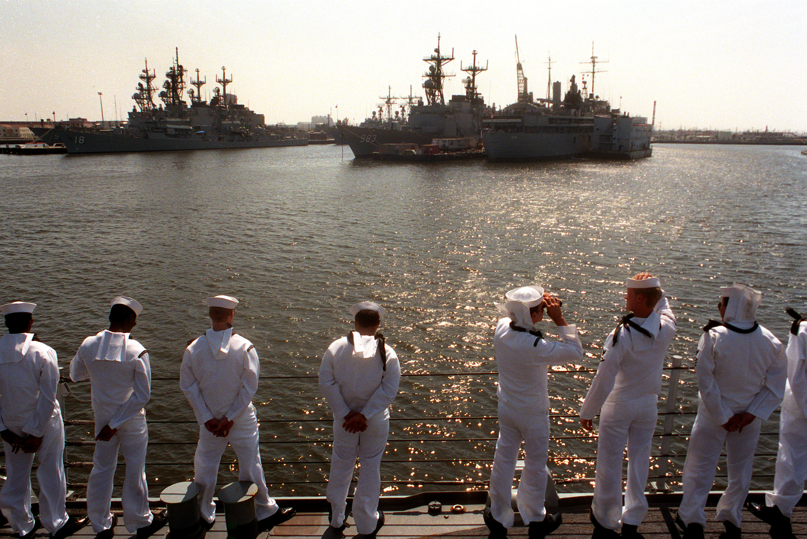 U.S. Navy crew members man the rails aboard the guided missile frigate USS Nicholas (FFG-47) as the vessel passes the destroyer tender USS Sierra (AD-18), the destroyer USS John Rodgers (DD-983) and the guided missile destroyer USS Semmes (DDG-18) tied up at the pier at the Naval Station, Charleston, South Carolina (USA), on 22 March 1991.